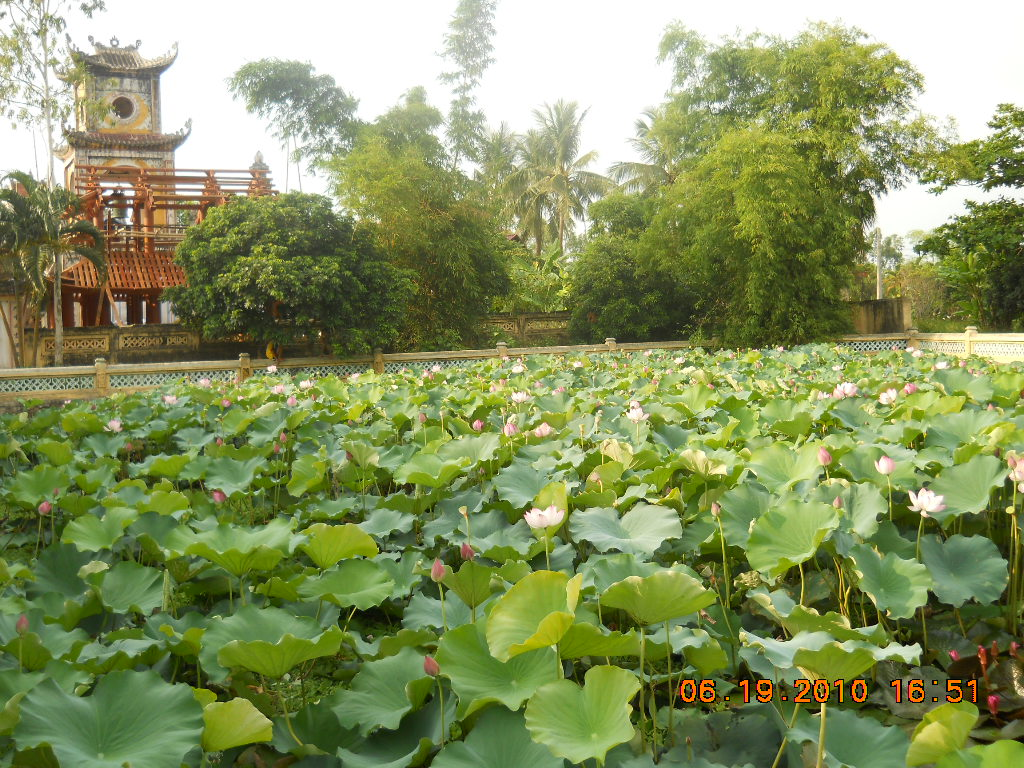 cây cầu bắc qua hồ sen dẫn vào chùa Sùng Nghiêm Diên Thánh, Hậu Lộc, Thanh Hóa